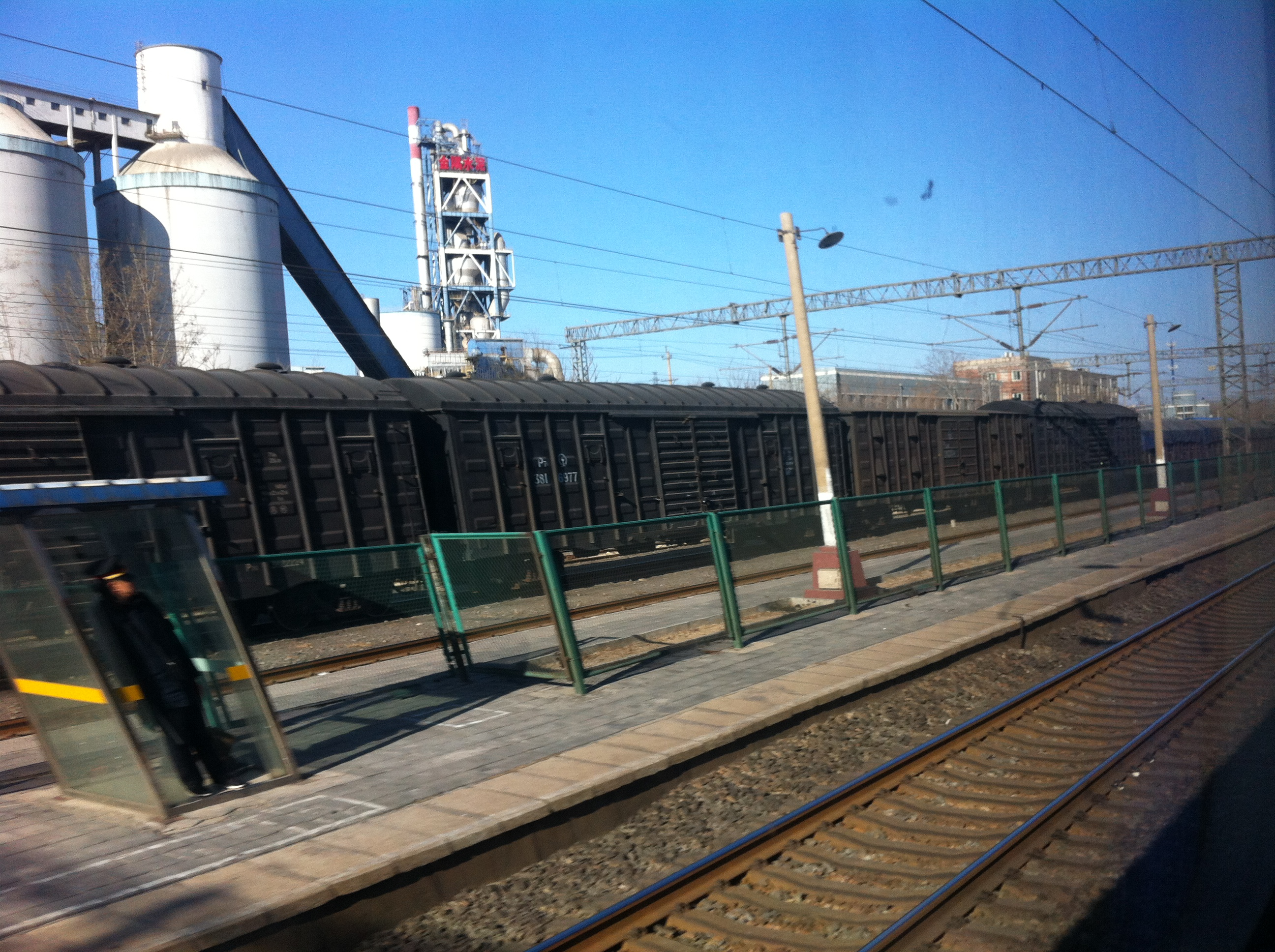 A P70 boxcar at Liulihe Station or Liulihe South.